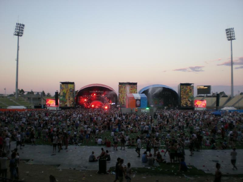 Stage of the 2010 Big Day Out festival in Sydney